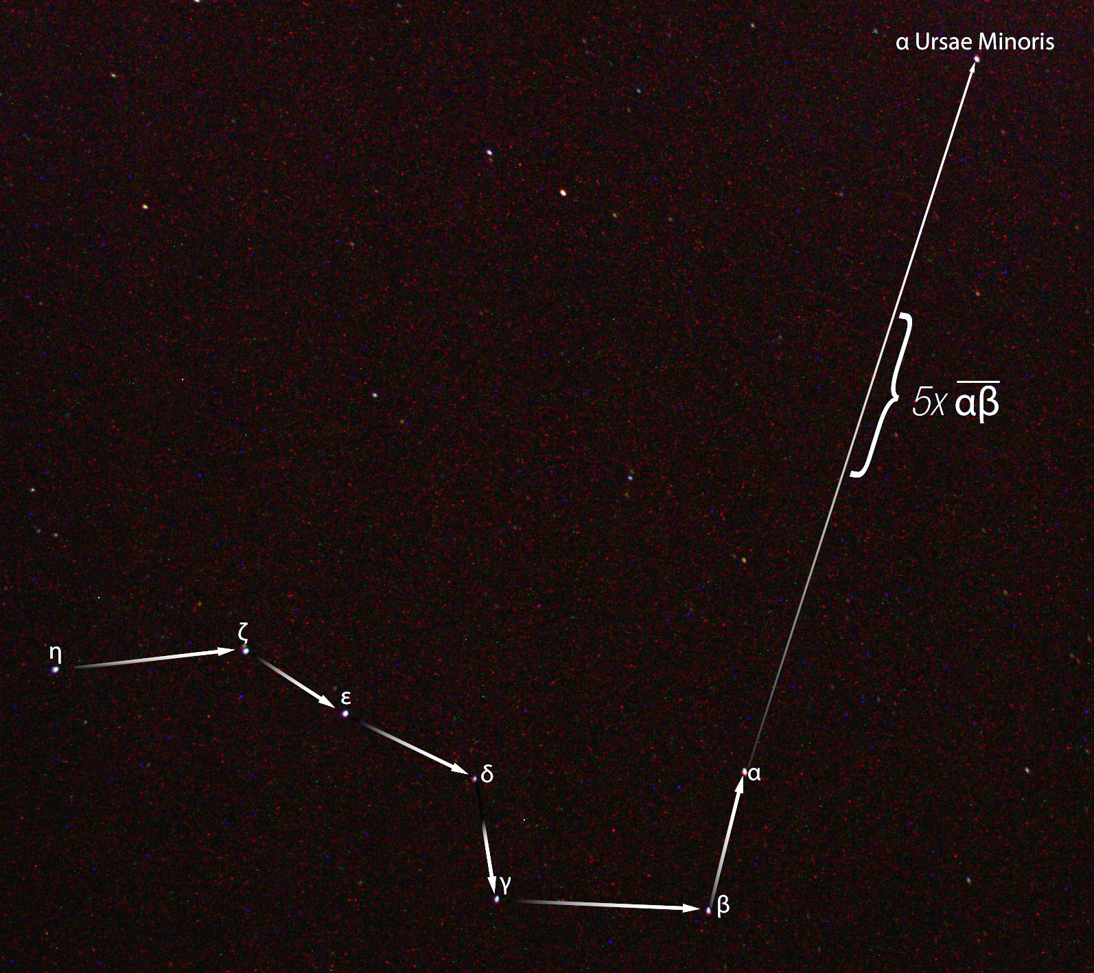 Polaris, the North Star, is found by imagining a line from Merak (β) to Dubhe (α) and then extending it for five times the distance after Dubhe (α). Legend: α UMa (Dubhe), β UMa (Merak), γ UMa (Phecda), δ UMa (Megrez), ε UMa (Alioth), ζ UMa (Mizar), η UMa (Alkaid) and α Urasae Minoris (Polaris).